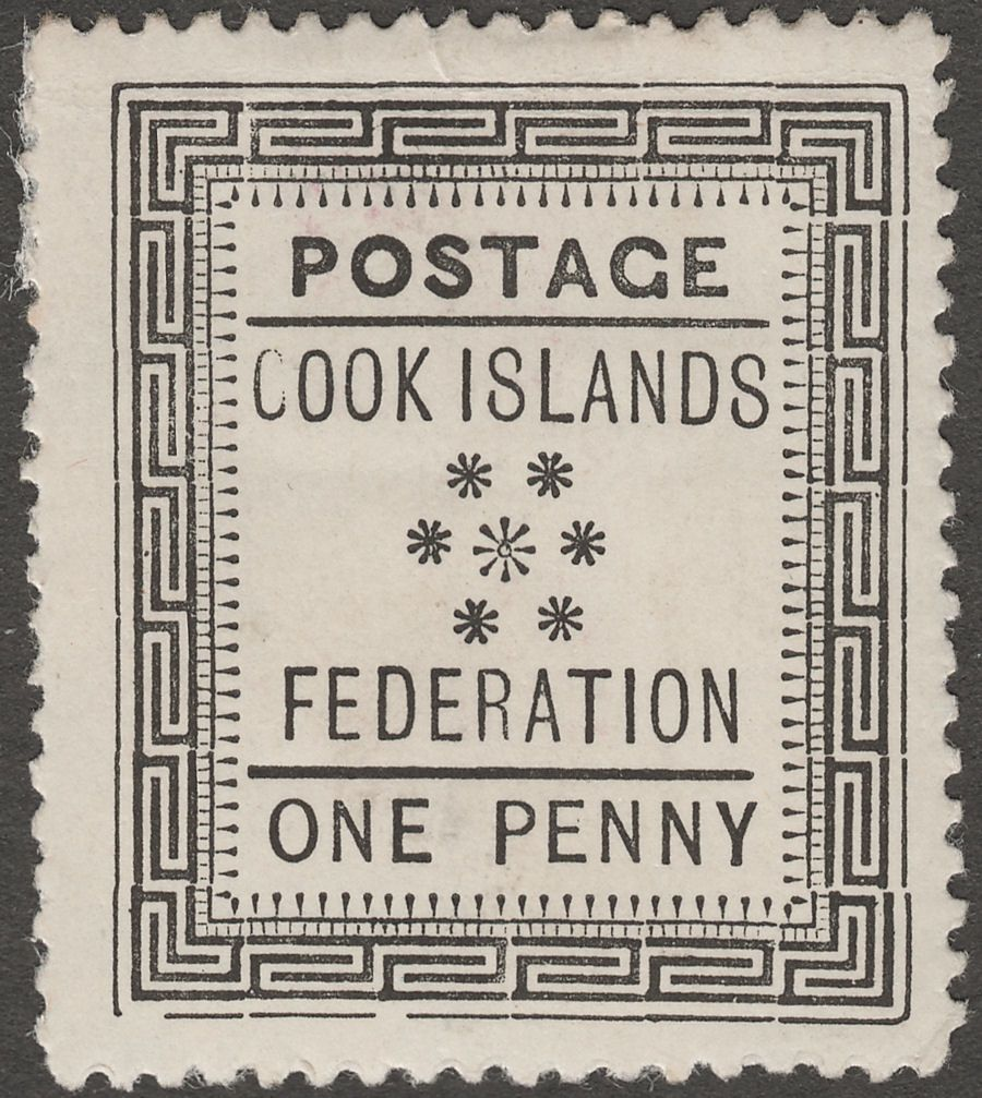 1892 one penny stamp of the Cook Islands.